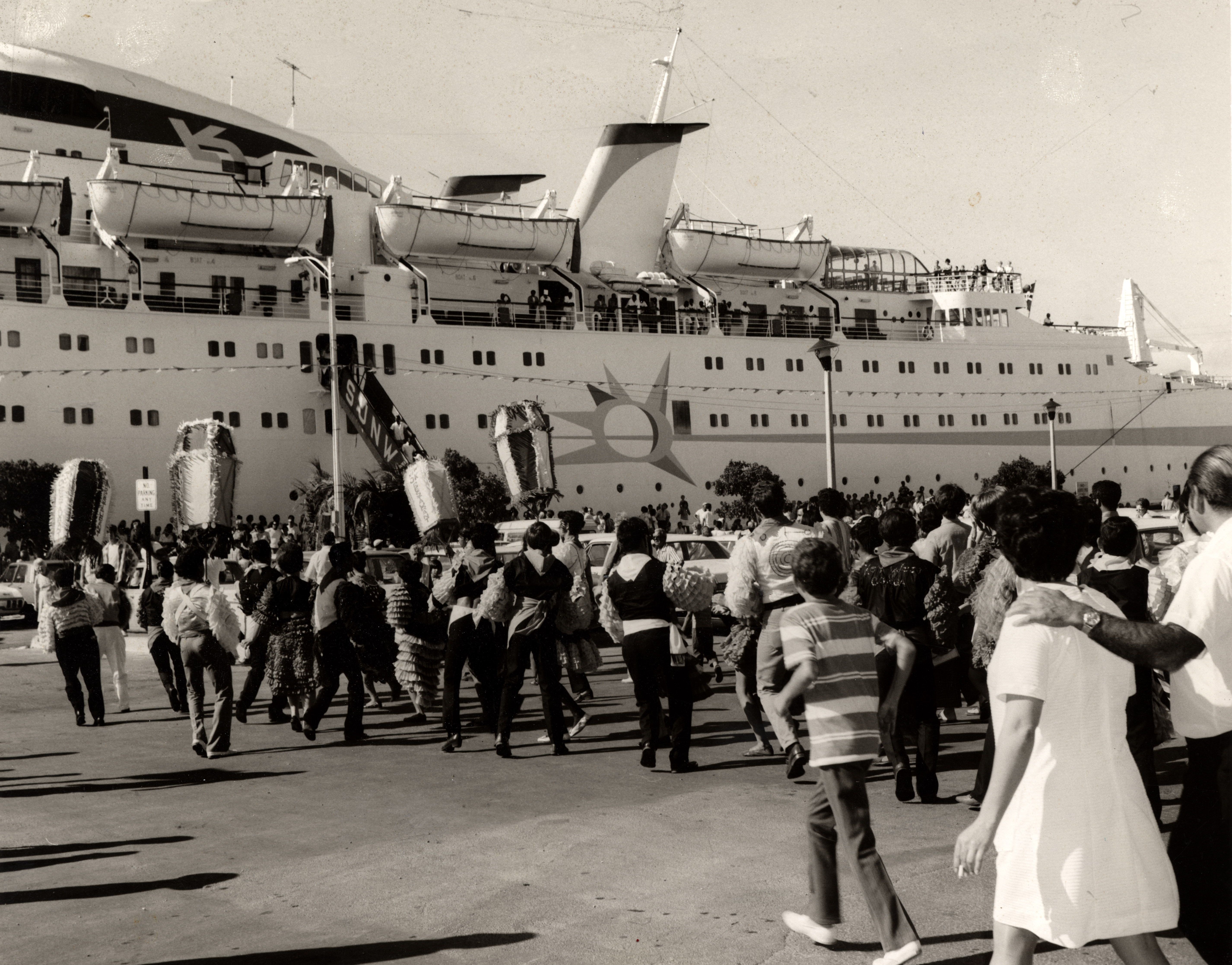 Welcome for the cruise ship Sunward in September 1970. U.S. Navy photo.